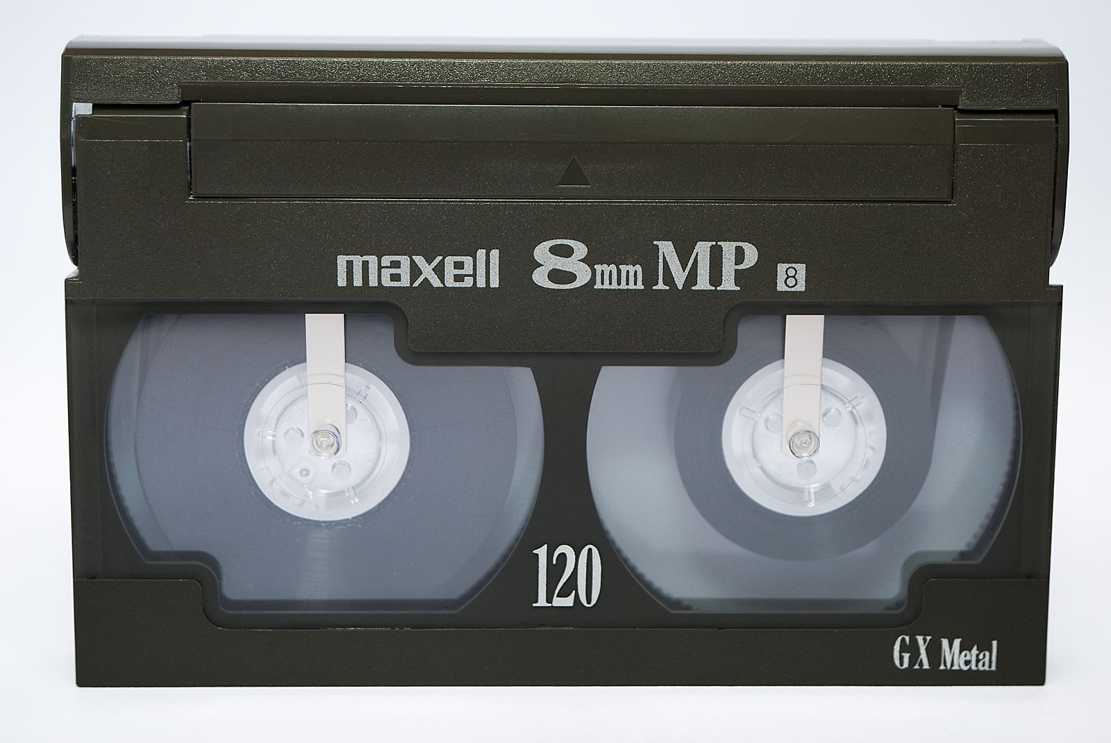 Font of an 8mm video cassette.